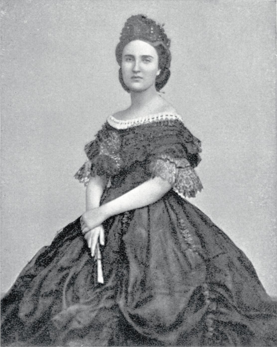 Charlotte of Belgium (1840-1927), Empress of Mexico